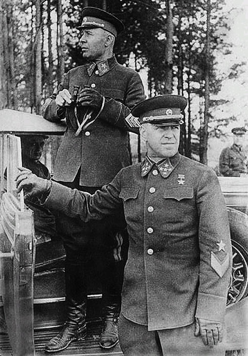 Khalkhyn Gol, Georgiy Zhukov